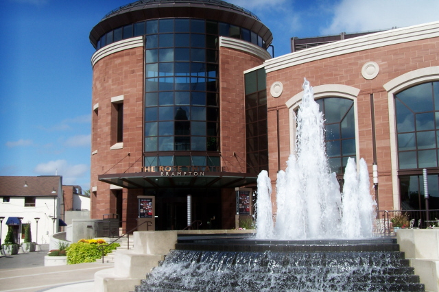 The Rose Theatre fountain stage in downtown Brampton, Ontario.